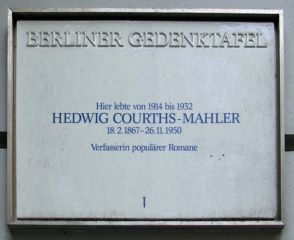 Berlin memorial plaque, Hedwig Courths-Mahler, Knesebeckstr 12, Berlin-Charlottenburg, Germany Koordinate:52°30′32″N 13°19′21″E / 52.50889°N 13.3225°E